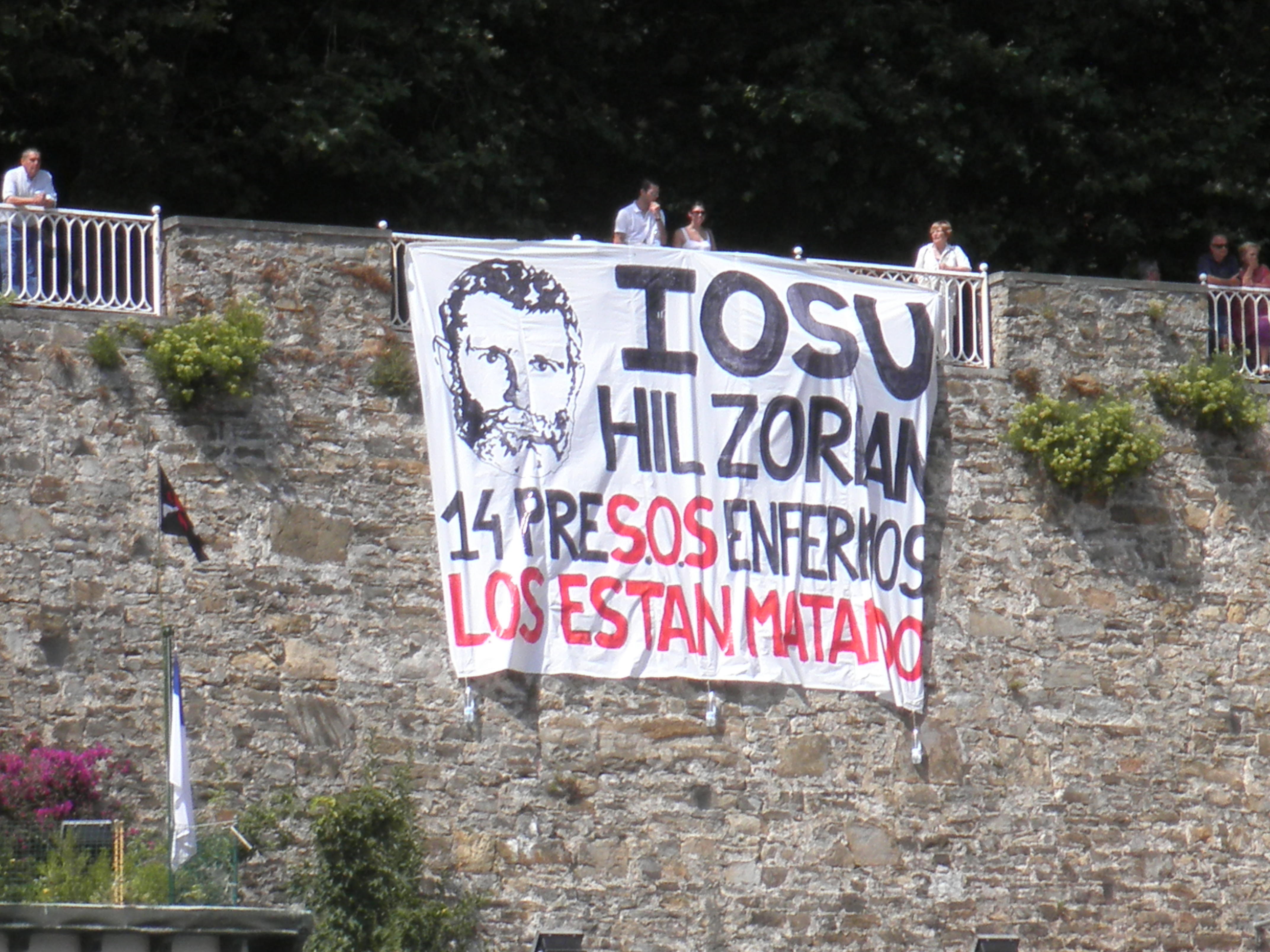 Banner supporting Josu Uribetxeberria and other ill prisoners belonging to ETA and the abertzale left in Urgull, Donostia.